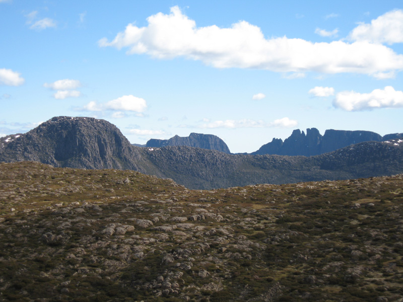 Castle Crag and Geryon from Cathedral